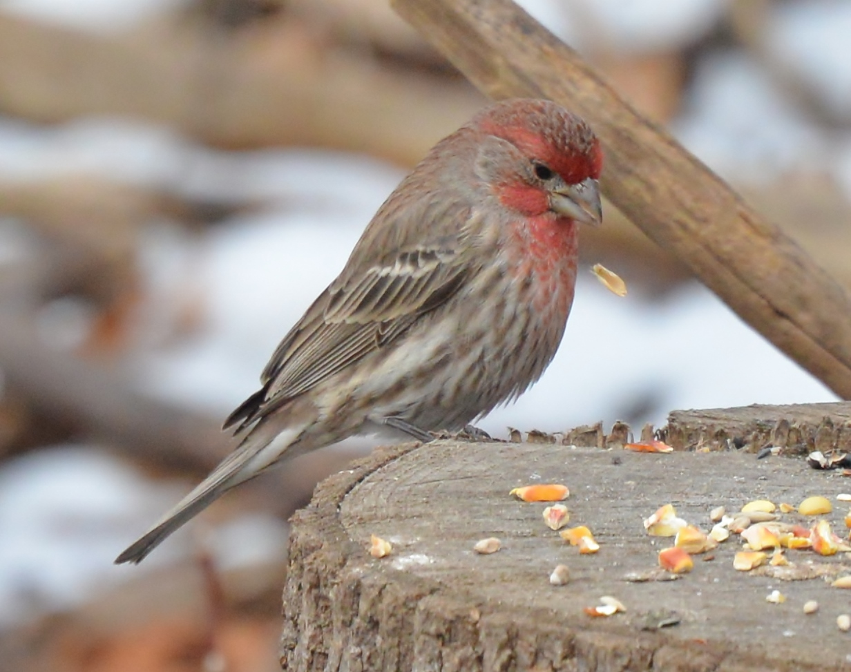 Male House Finch (Haemorhous mexicanus) on the birdfeeder in Lambton Woods Park, Toronto